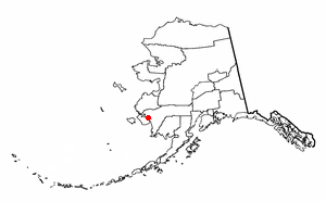 Adapted from Wikipedia's AK borough maps by Seth Ilys.